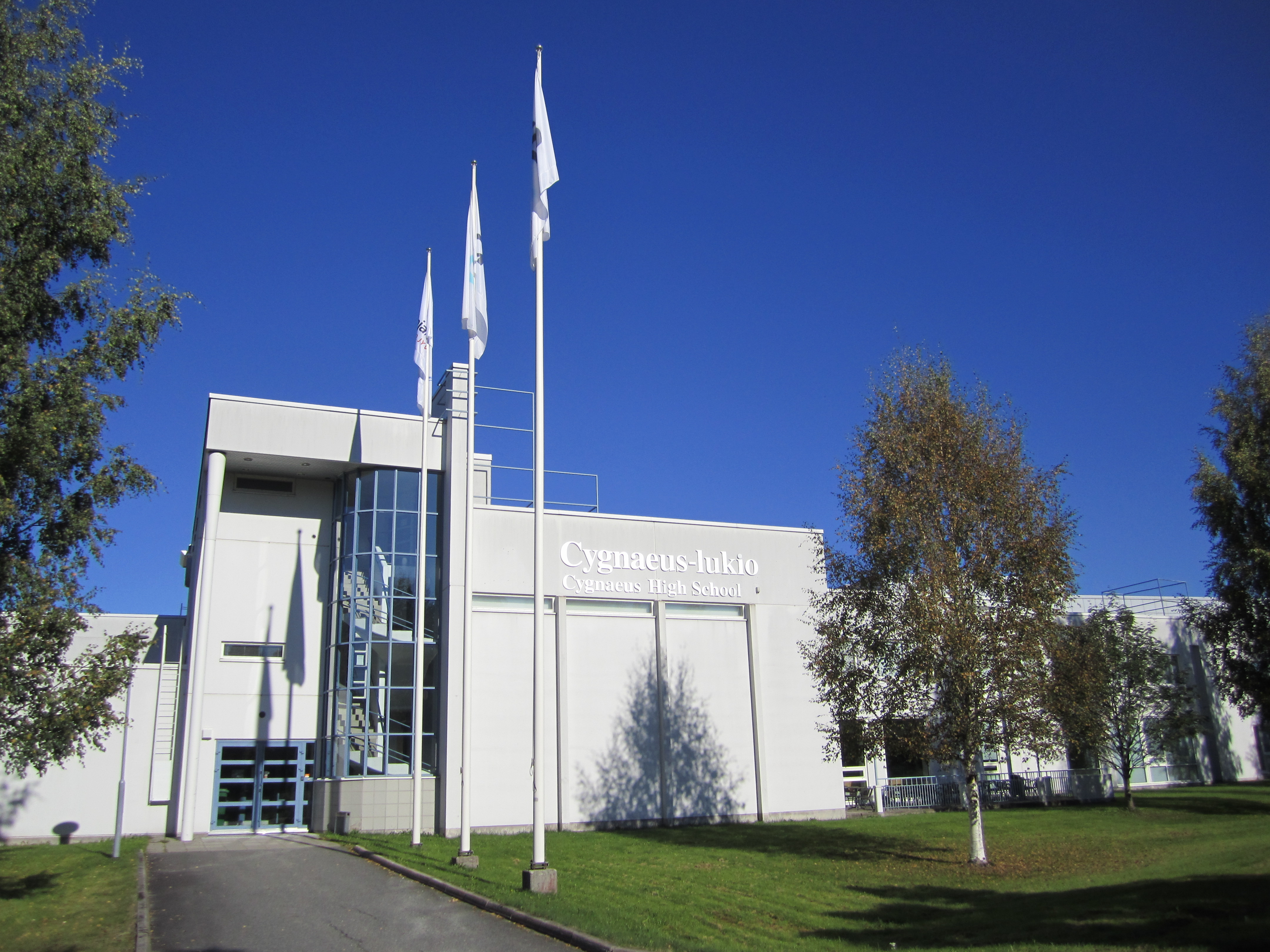 Cygnaeus High School, Jyväskylä, Finland.